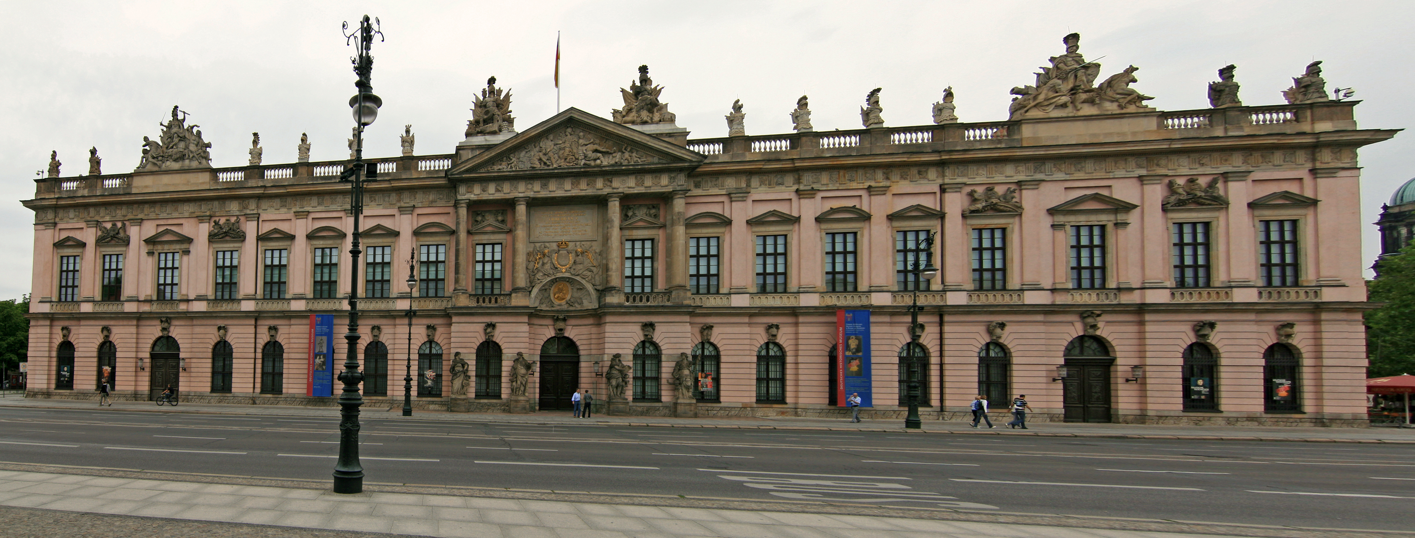 Zeughaus, Berlin.